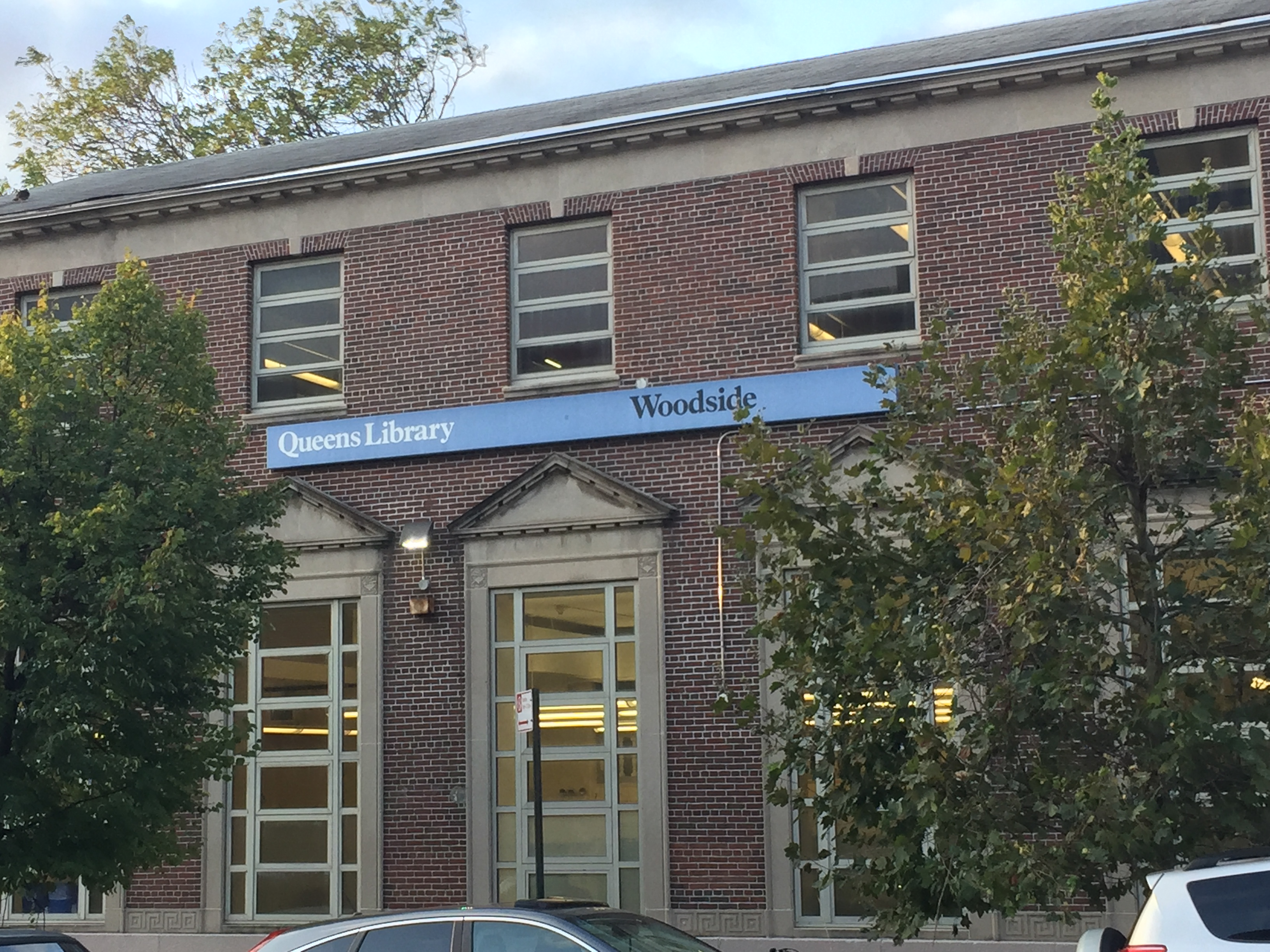 There are no photos of this Library on Woodside's wikipedia page, here is the first entry.